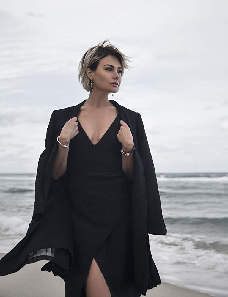 Filmmaker, Actress